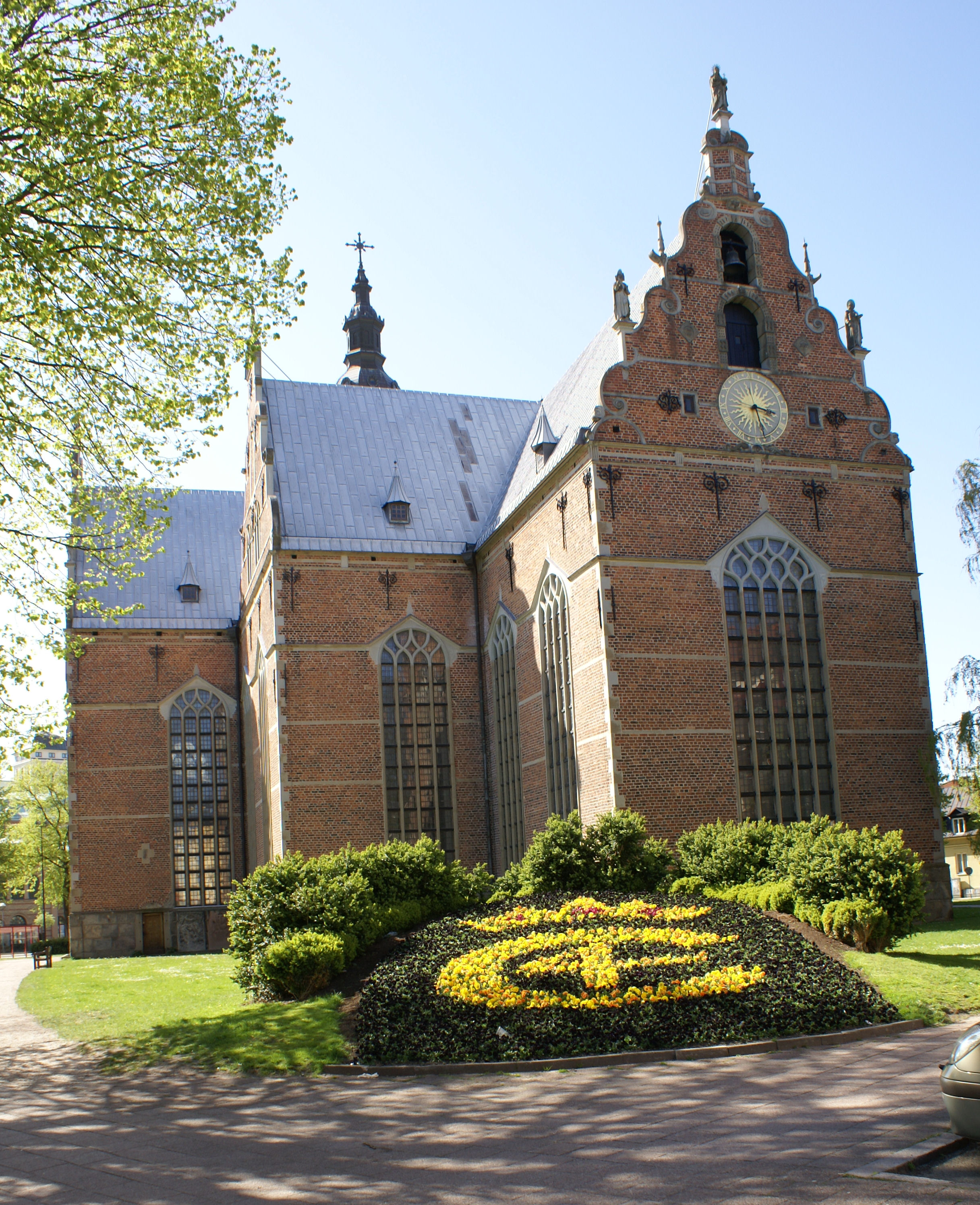 Kristianstad, Scania, Holy Trinity Church